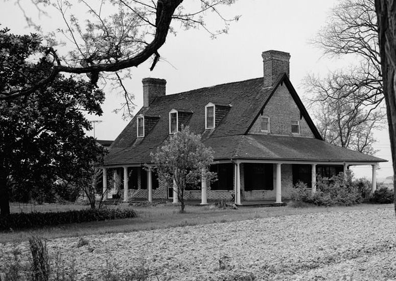 Ocean Hall, Bushwood, St. Mary's County, MD: PERSPECTIVE VIEW OF EAST AND NORTH ELEVATIONS, SHOWING TWENTIETH CENTURY ADDITION OF PORCHES, HABS MD,19-BUWO,1-2